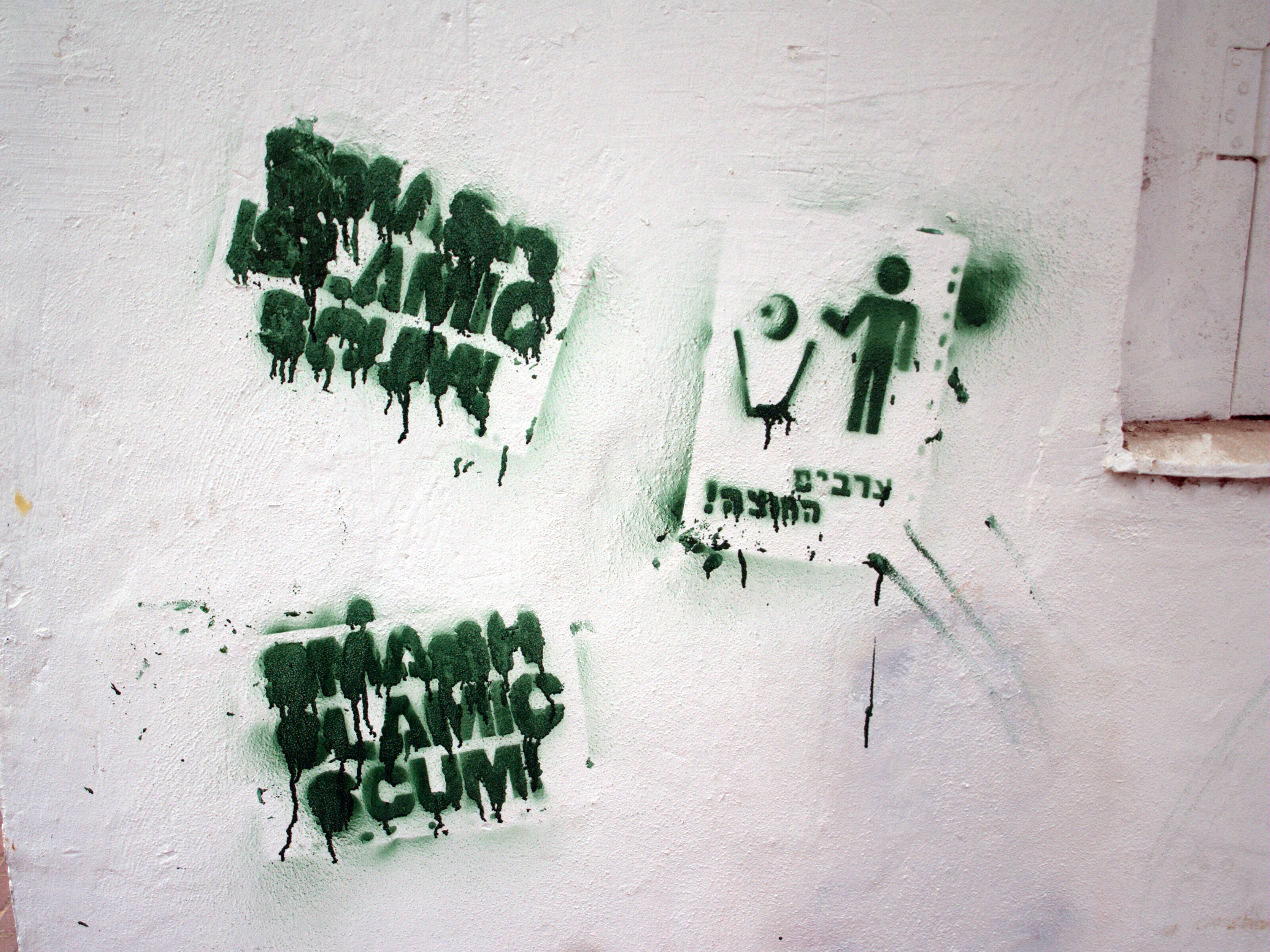 Graffiti in Tel Aviv, Israel